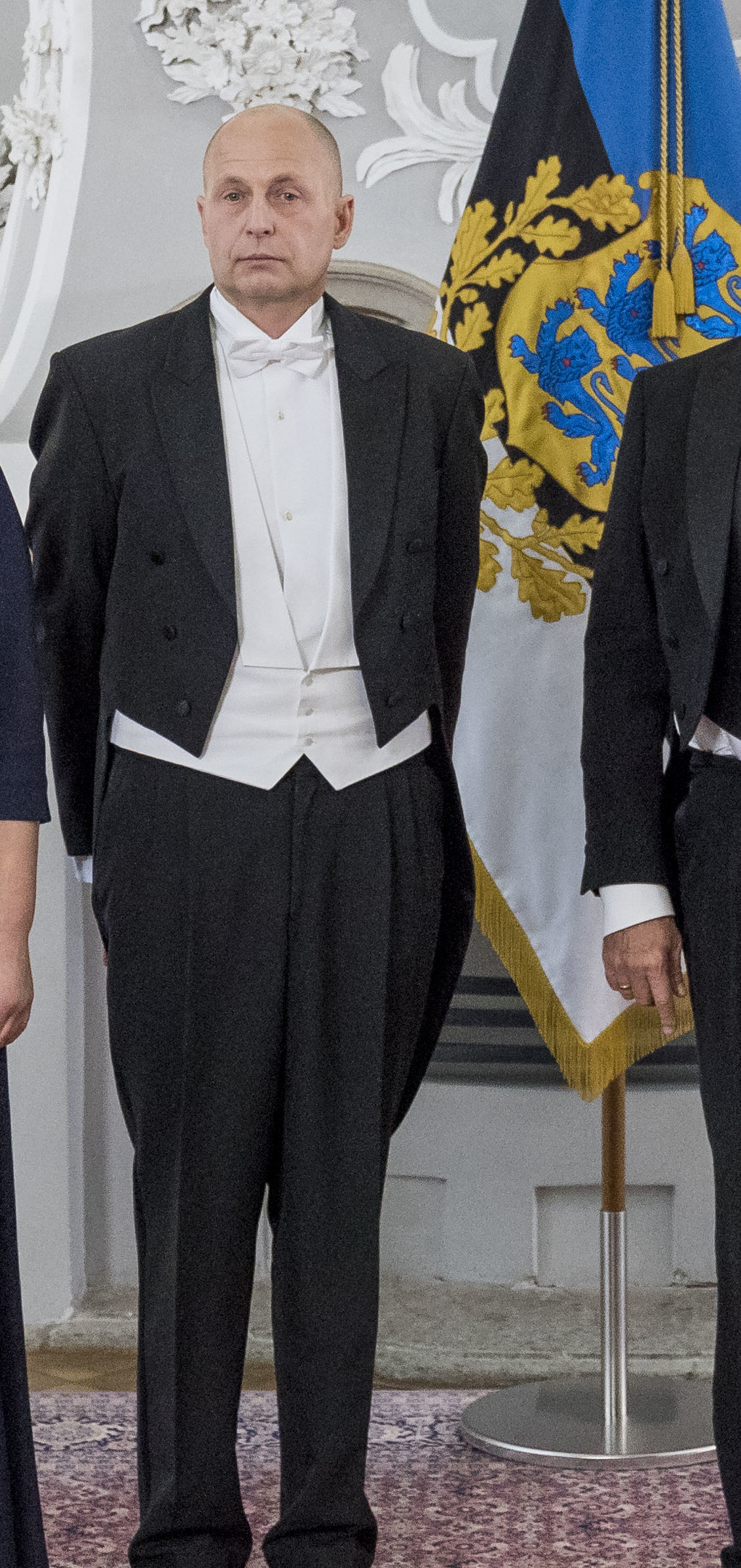 The President of Estonia Kersti Kaljulaid with her spouse Georgi-Rene Maksimovski and the preceding President of Estonia Toomas Hendrik Ilves with his spouse Ieva Ilves at the reception in Kadriorg Palace on October 10, 2016.